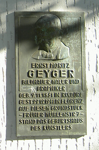 Think of board for Ernst Moritz Geyger